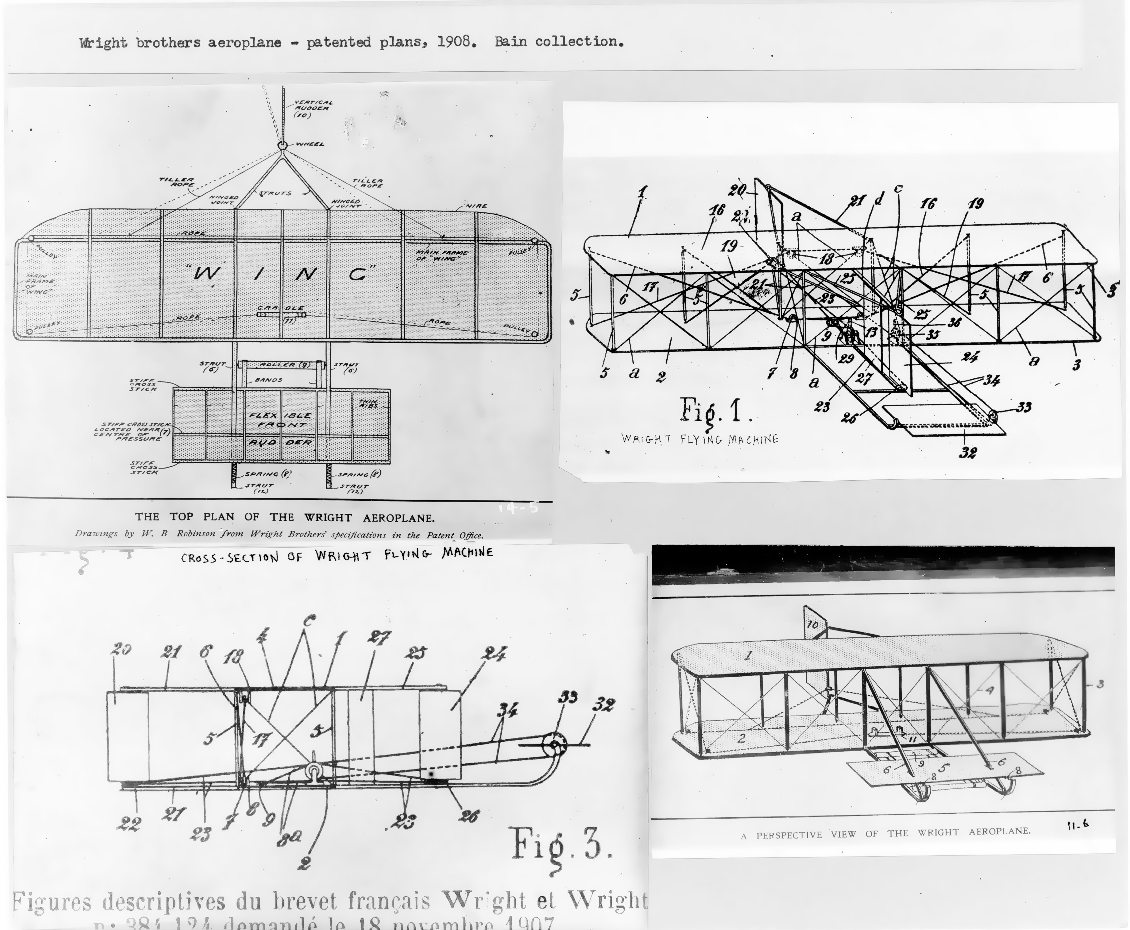 Four plans: The top plan of the Wright aeroplane / drawings by W. B. Robinson from Wright Brothers’ specification in the Patent Office; Fig. 1 – Wright flying machine; Fig. 3 – figures descriptives du brevet français Wright et Wright [...]; A perspective view of the Wright aeroplane.